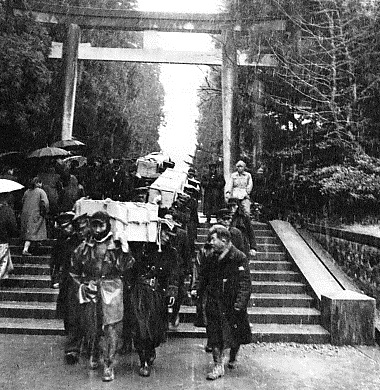 Yahiko Shrine Accident